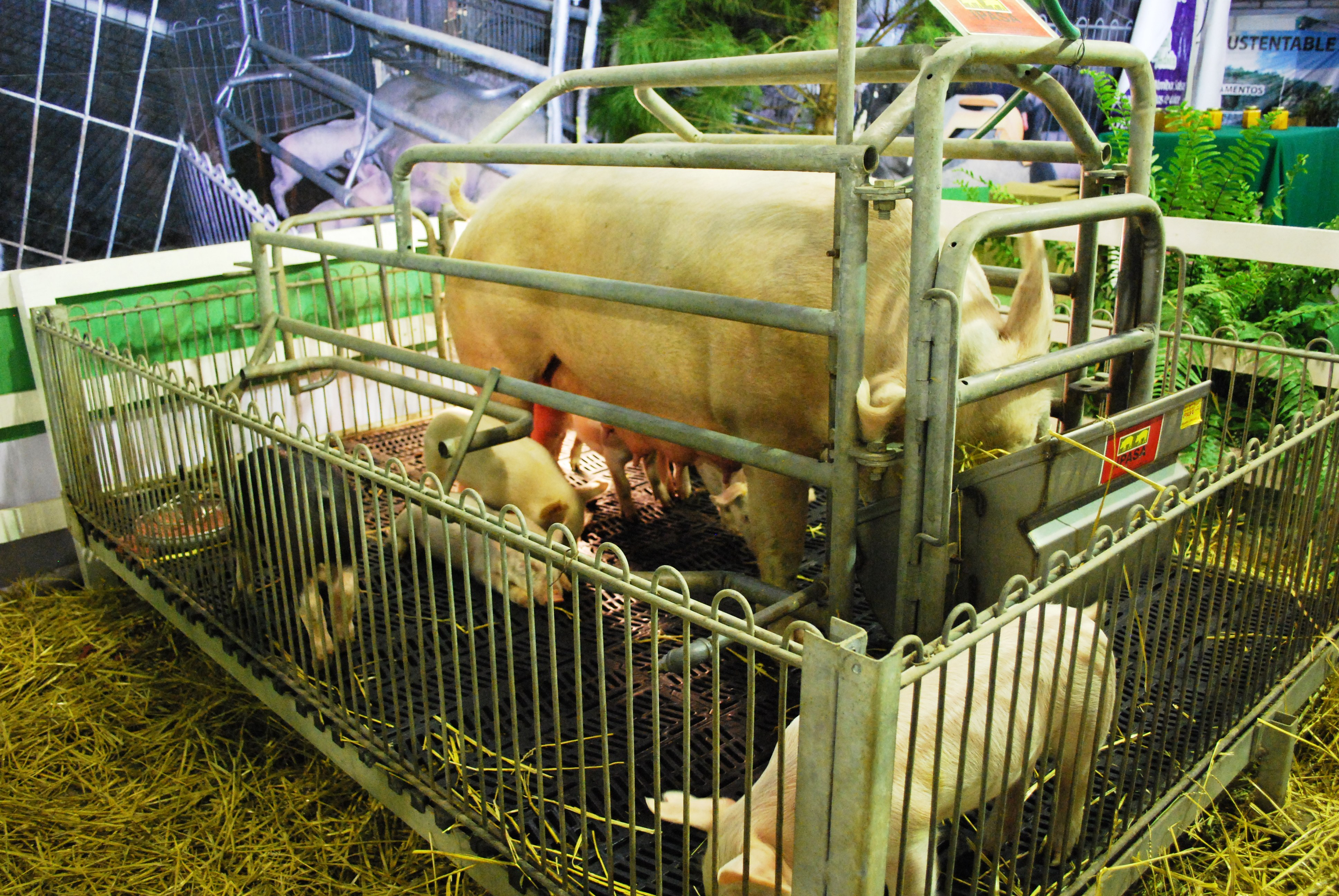 Sow with piglets at the livestock expo area of the Feria de Hidalgo in Pachuca, Hidalgo